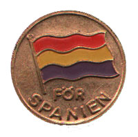 Swedish Solidarity Pin Button: "For Spain". 1930's.